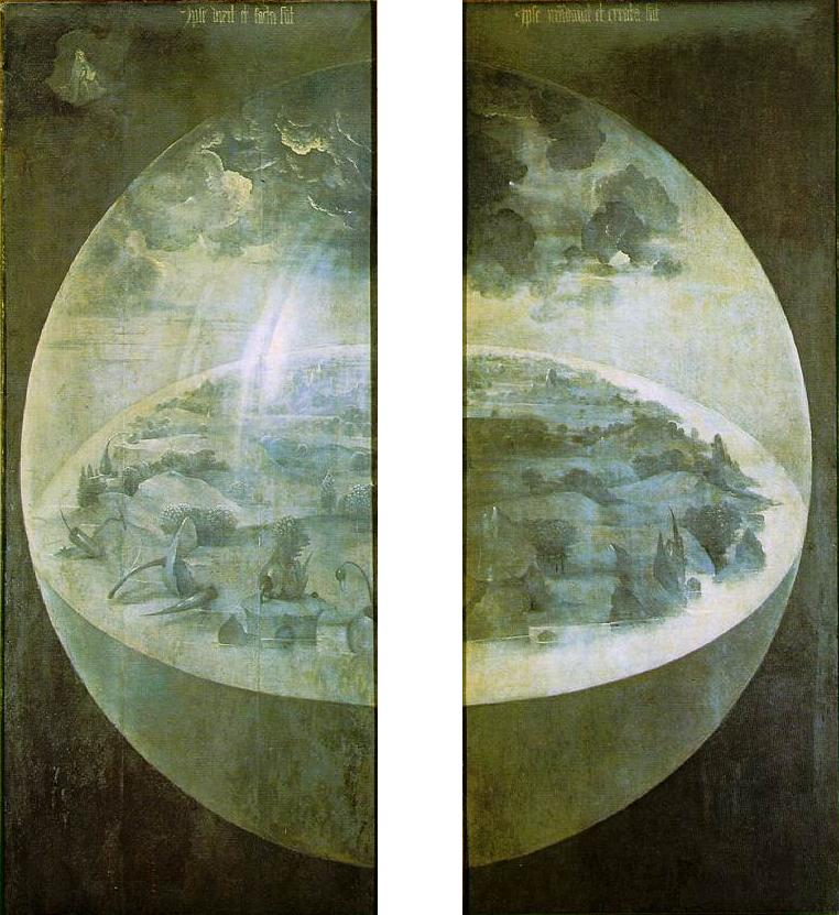 Exterior (shutters) of The Garden of Earthly Delights.